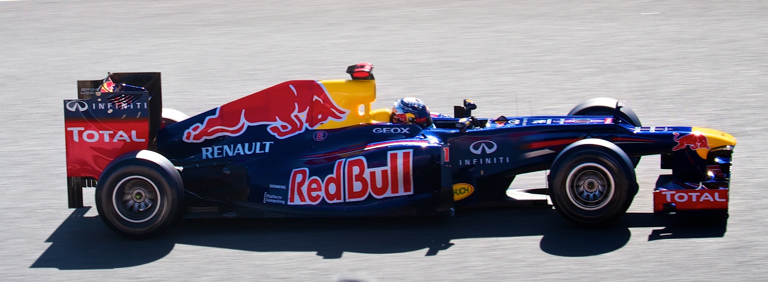 Red Bull RB8 of Vettel during pre season testing